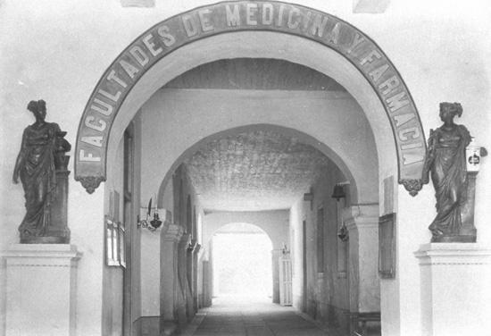 San José College, Manila University, in 1887. The entrance to the pharmacy and medicine classrooms.